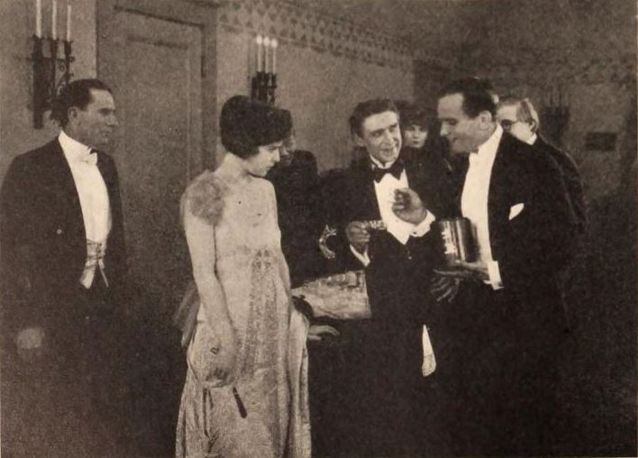 Still from the American silent comedy film The Nut (1921) with William Lowery, Marguerite De La Motte, and Douglas Fairbanks, on page 68 of the February 19, 1921 Exhibitors Herald.